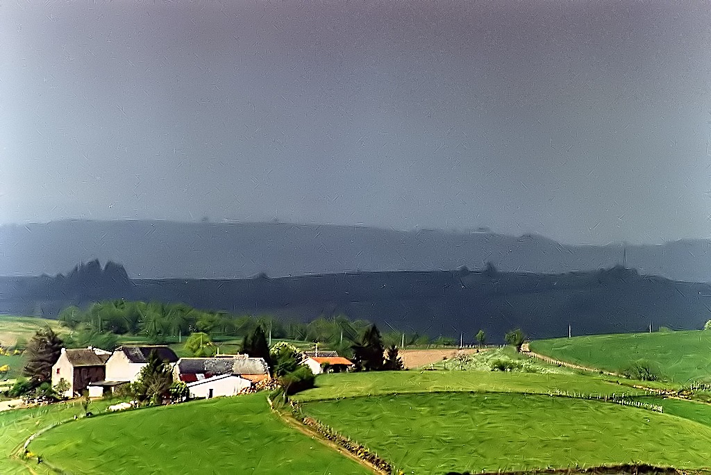 Village Sénergues in Aveyron.